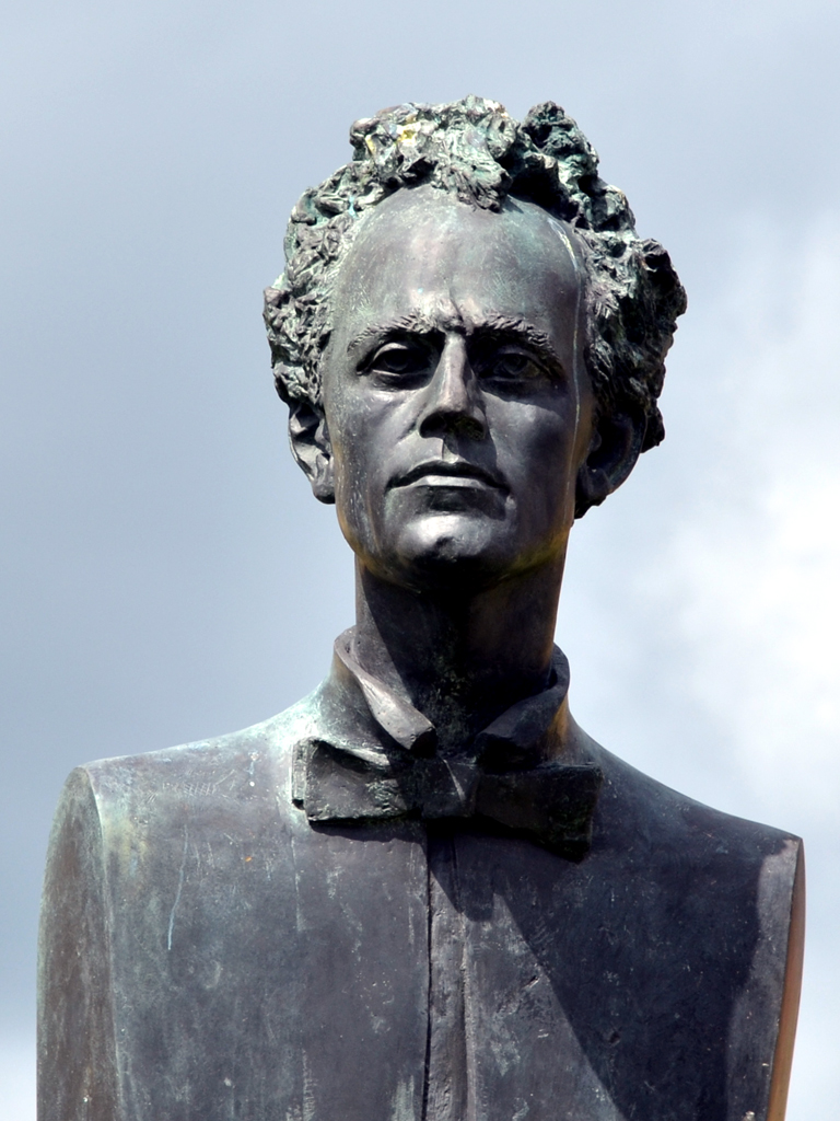 Statue of Gustav Mahler by Jan Koblasa, Jihlava